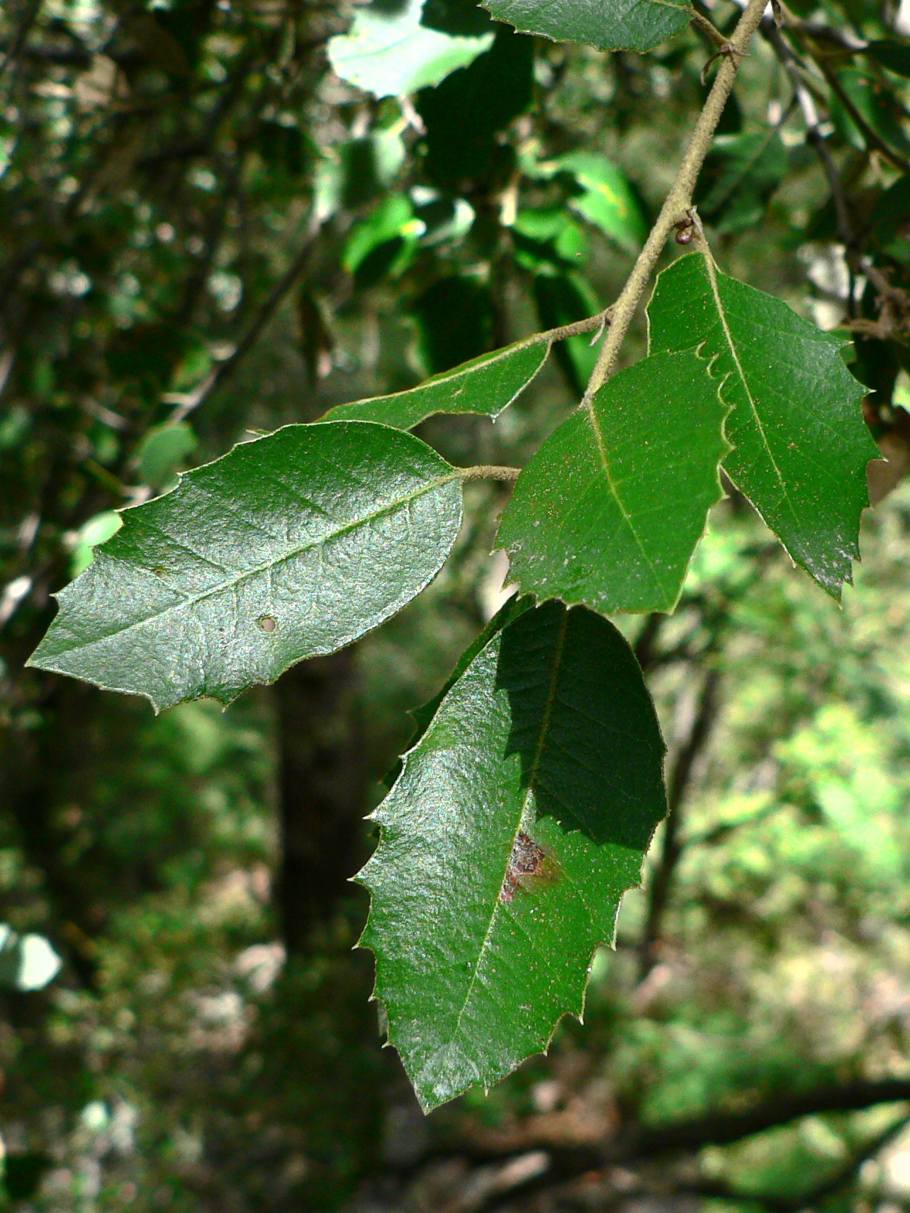 Canyon live oak